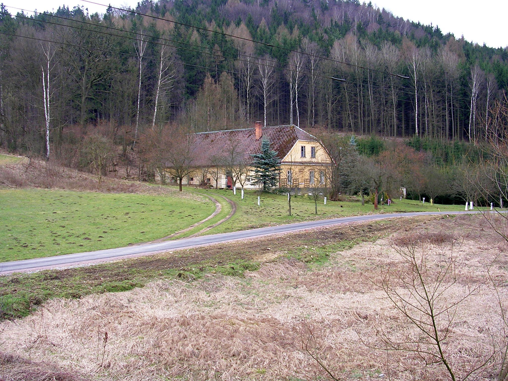 A house between Klopoty and Luh, Orlické Podhůří, the Czech Republic.